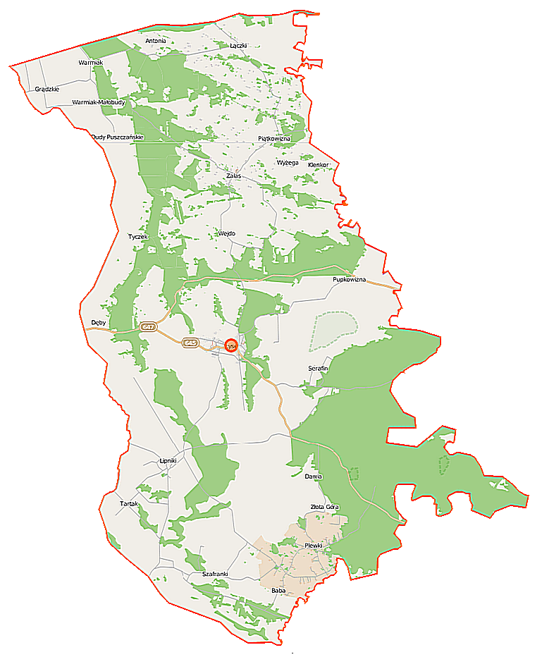 Map of Gmina Łyse, Poland This map of Łyse (gmina) was created from OpenStreetMap project data, collected by the community. This map may be incomplete, and may contain errors. Don't rely solely on it for navigation. Border coordinates53.485421.4264←↕→21.743353.2566